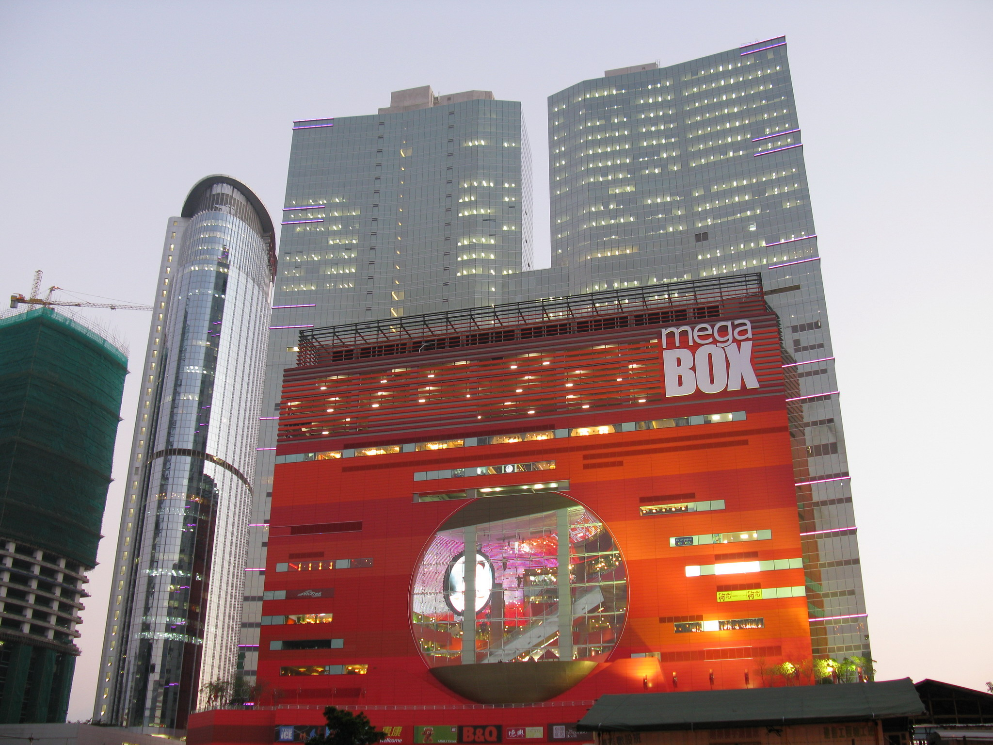 企業廣場五期 (MegaBox) 夜景 Night Scene of Enterprise Square Five (MegaBox)